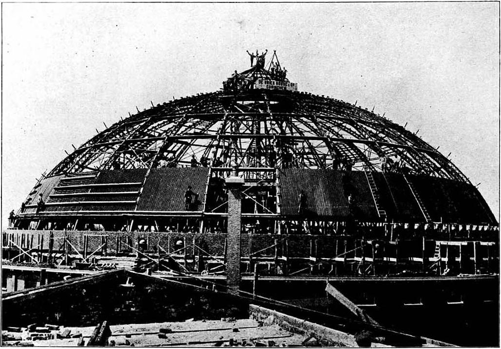 Panopticon, Haarlem.